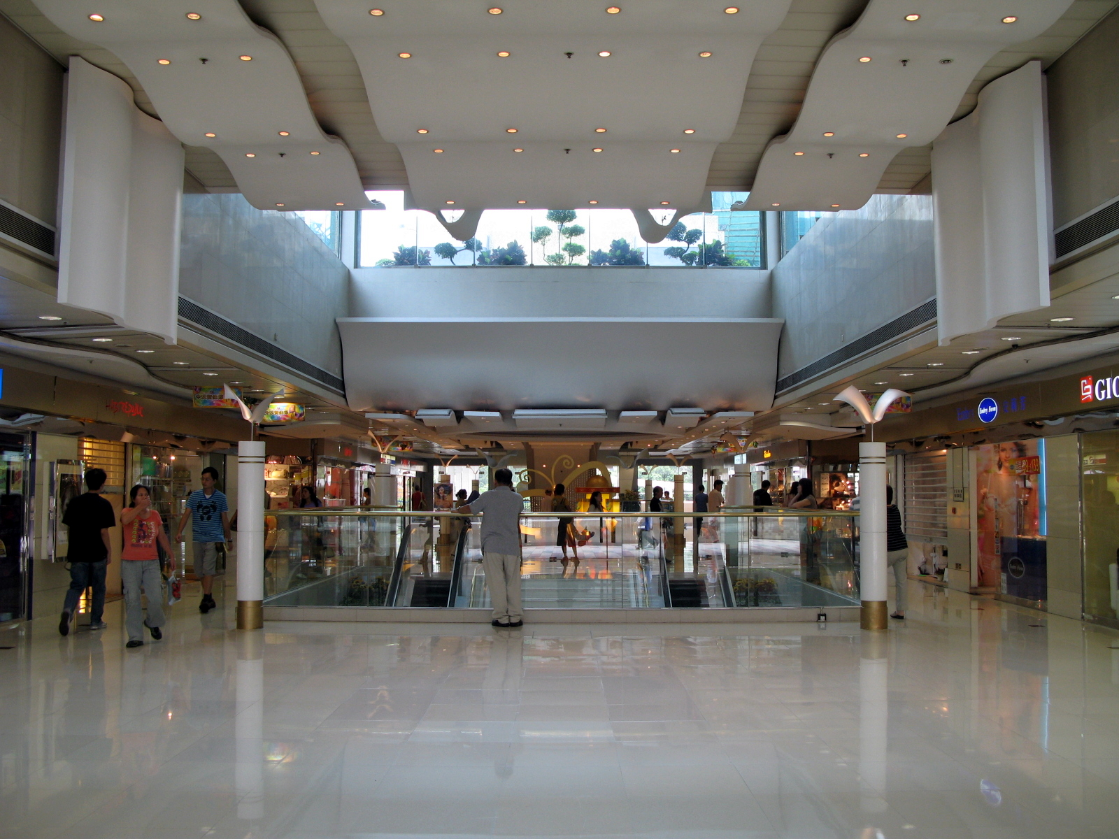 HK Shatin Centre Shopping Arcade Void.